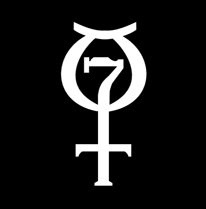 This is the Mercury-patch-g.png, edited to resemble Mercury insignia.jpg